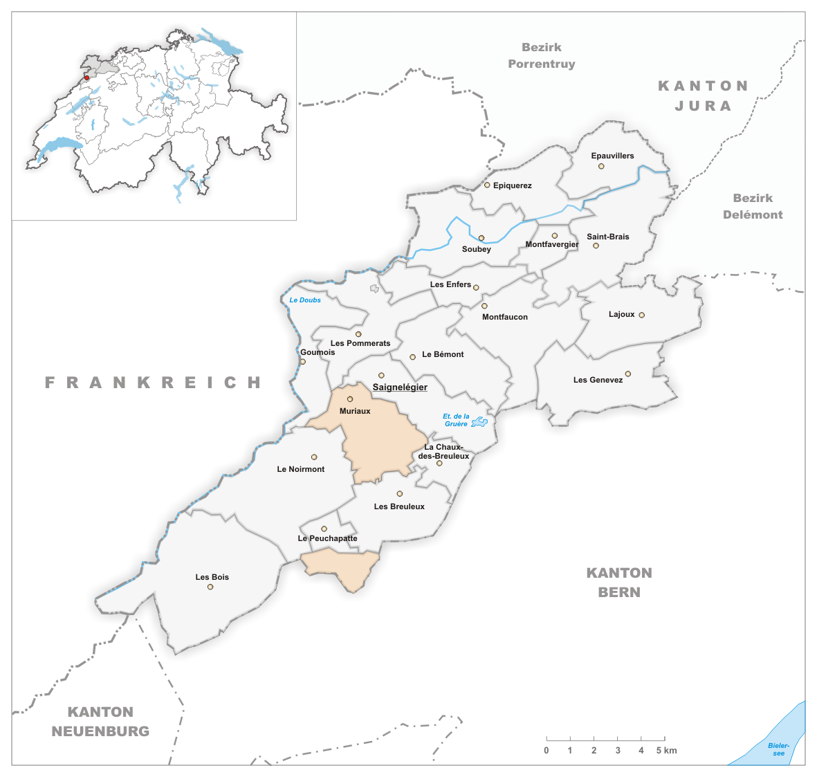 Municipality Muriaux